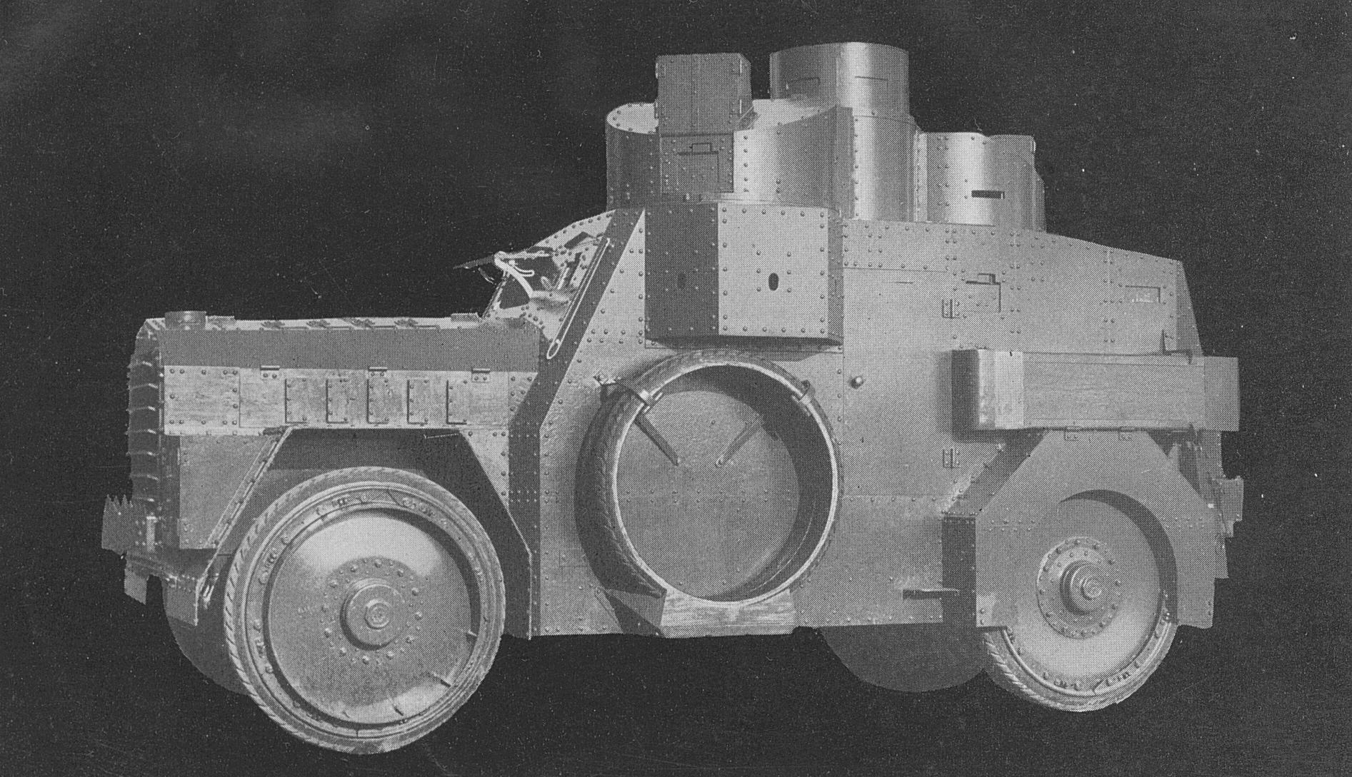 Armoured Police Car (Sonderwagen) Benz/21, round about 1921. Between 1921 and 1925 24 vehicles were produced and served in the Schutz- or Ordnungspolizeien of Federal German states.